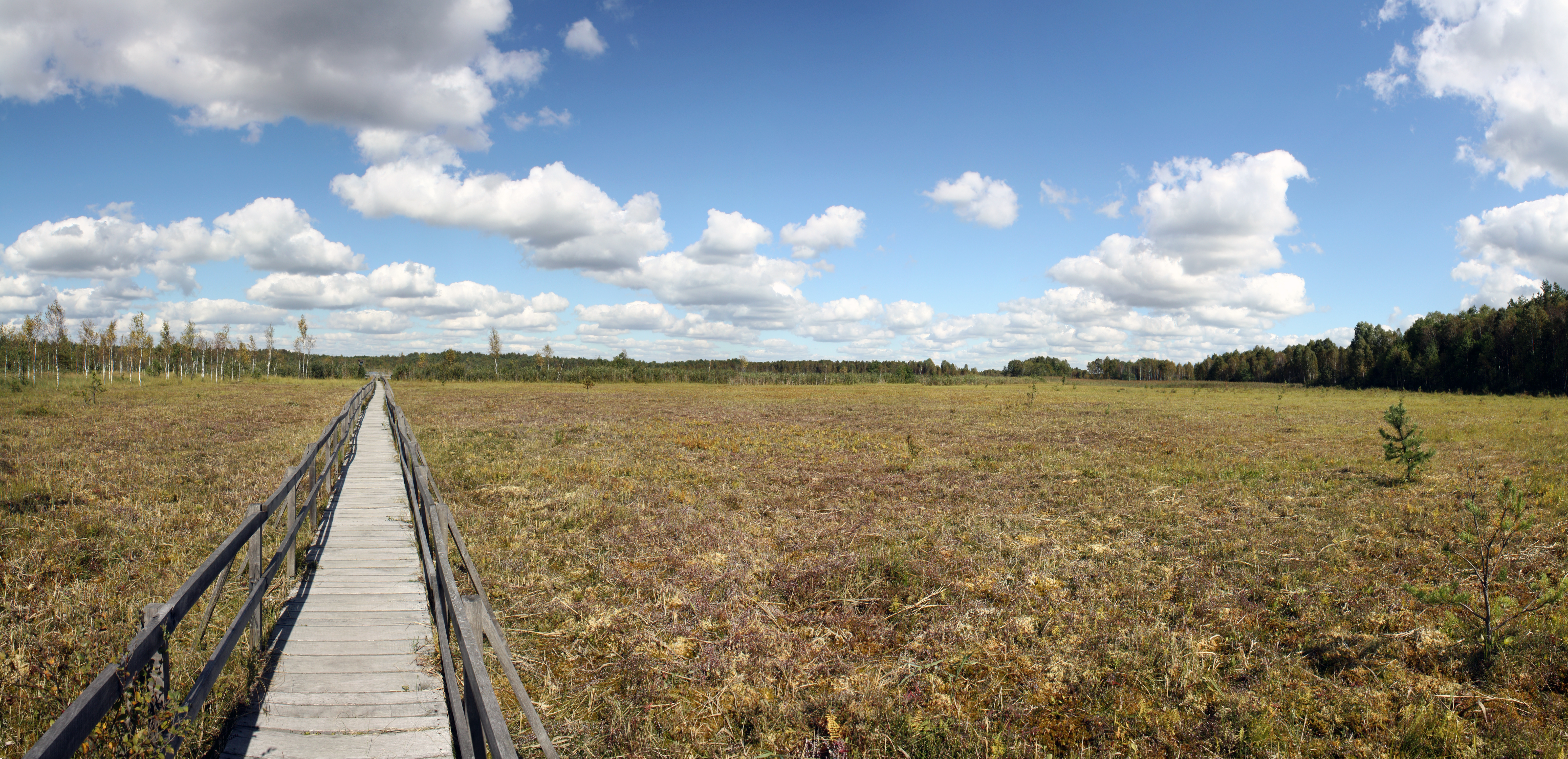 Bog near Moszne Lake.